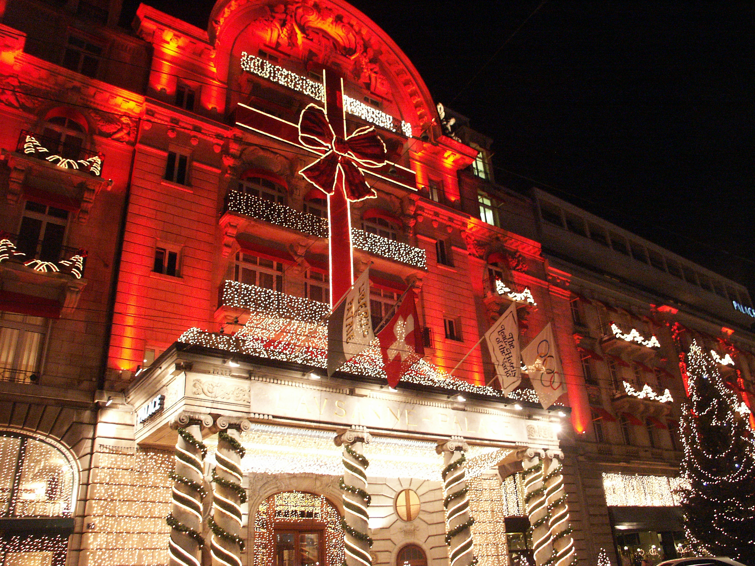 Lausanne Palace.